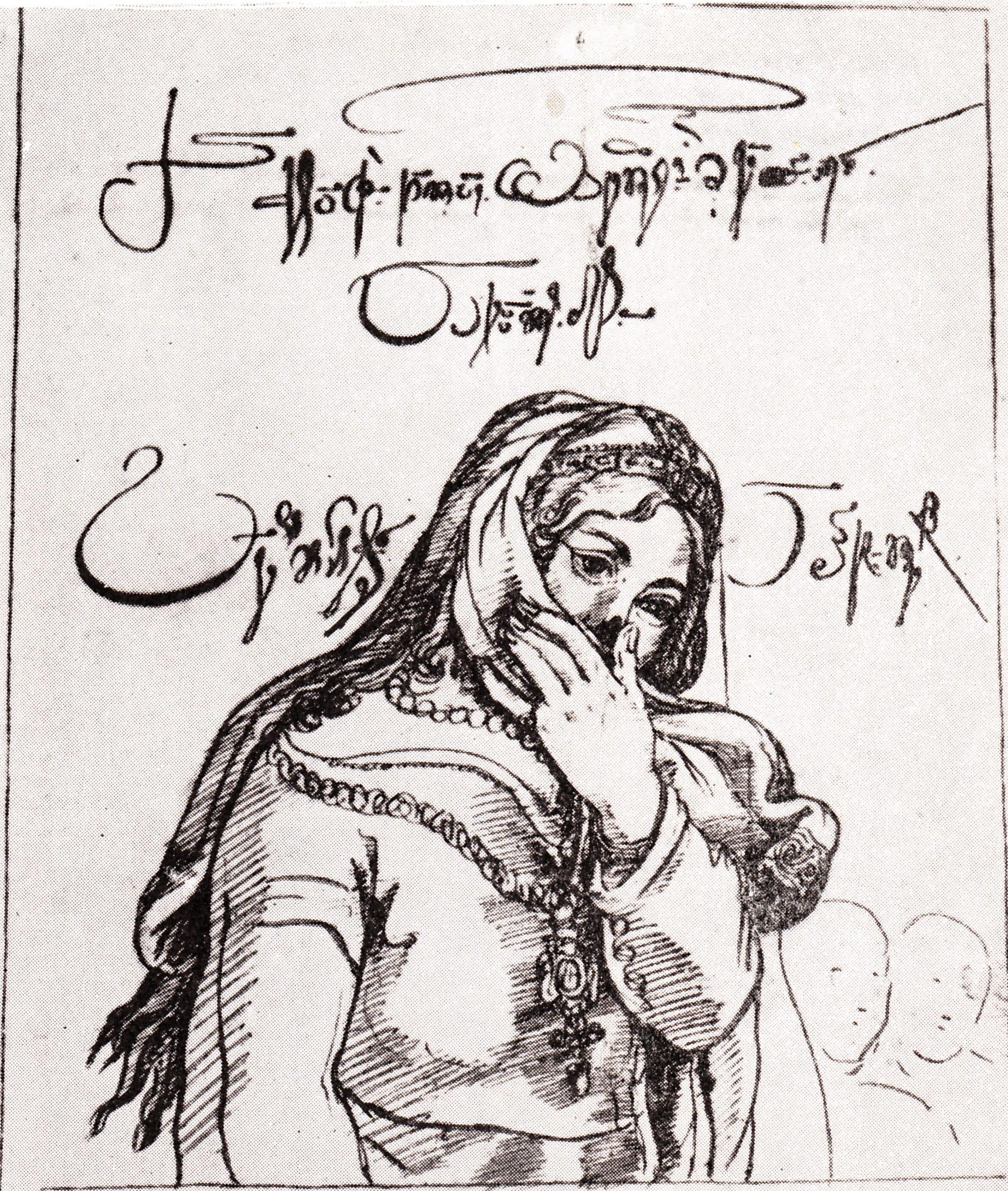 Tanuria Shervashidze, the first wife of Levan II Dadiani. A sketch by the Catholic missionaire Don Cristoforo De Castelli.